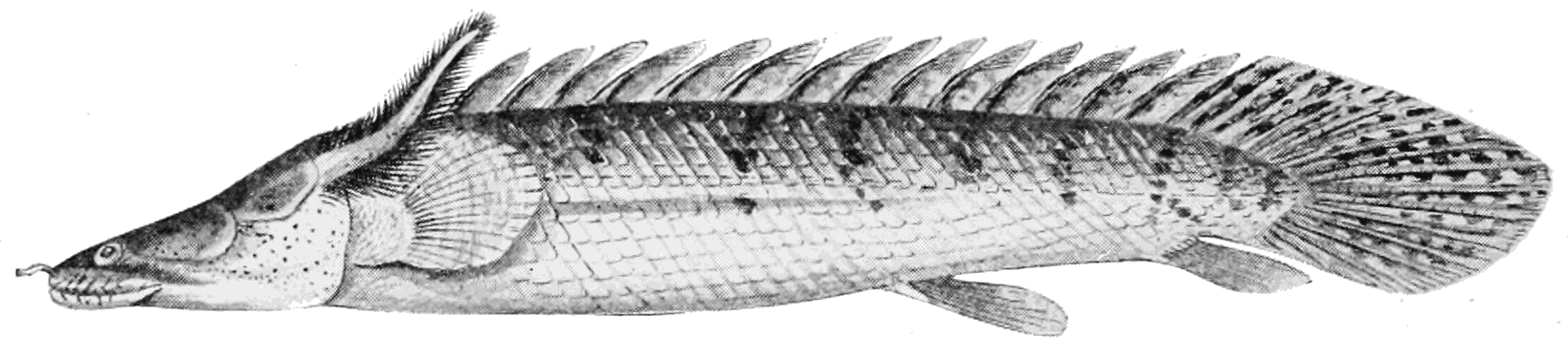 Polypterus congicus (Polypterus endlicherii congicus) — with external gills from the Congo river FishBase link : species Polypterus endlicherii congicus Boulenger, 1898 (Mirror site1, 2, 3, 4); common names (mirror) ITIS link: Polypterus congicus Boulenger, 1898 Invalid (mirror) ITIS link: Polypterus endlicherii congicus Boulenger, 1898 (mirror)